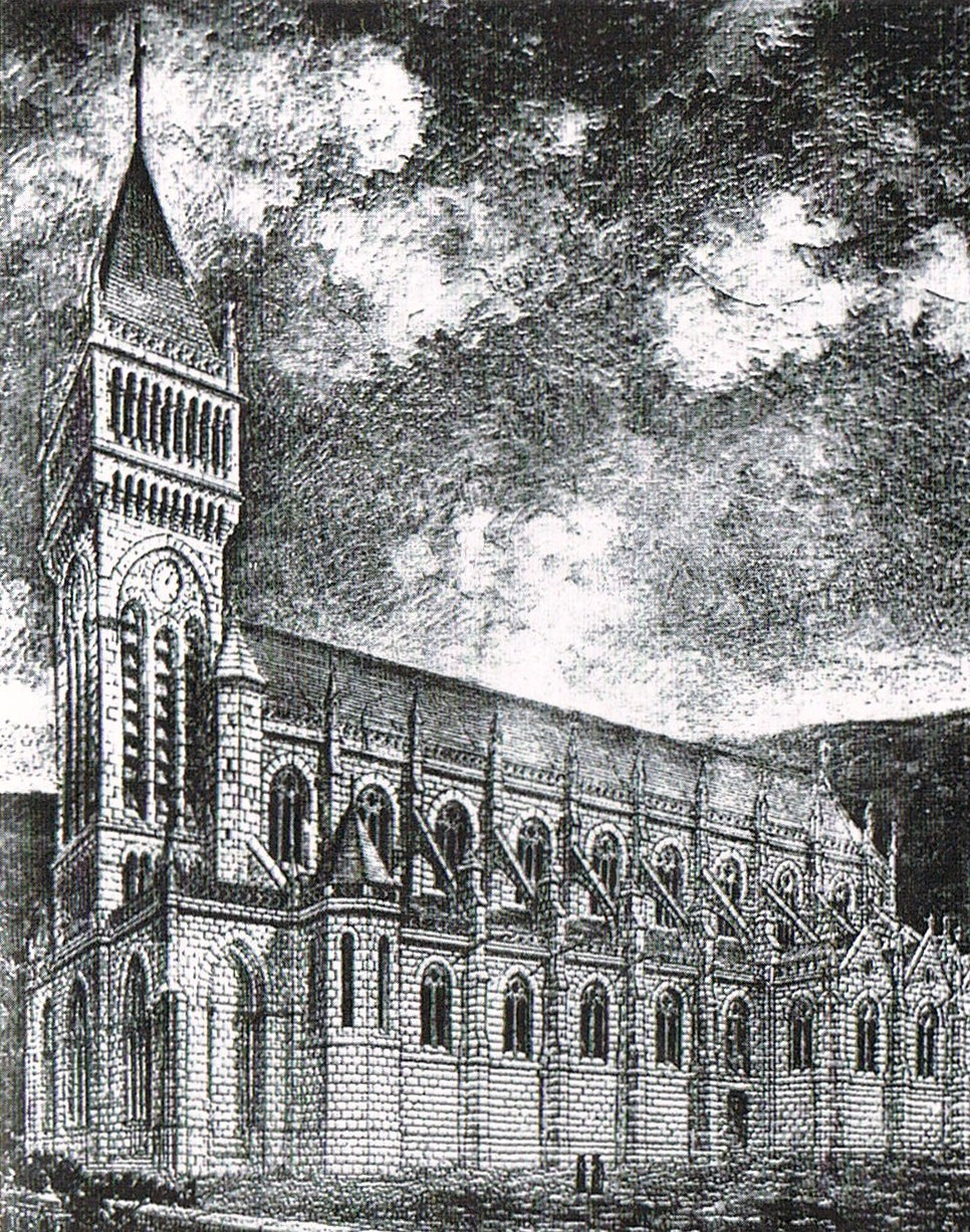 Plan of Sainte-Jeanne-d'Arc church of Besançon, in 1920's.